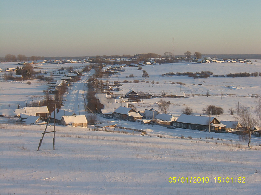 Novye Ziatsy village